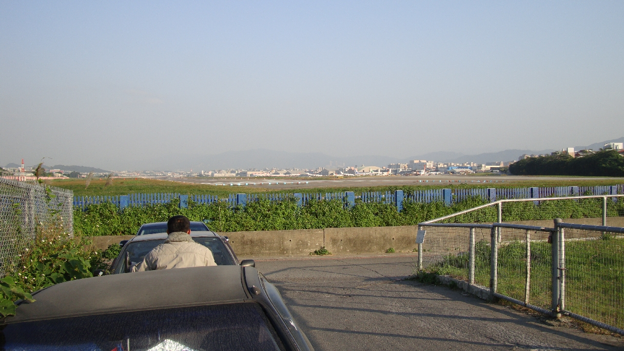 Binjiang St In 2010.